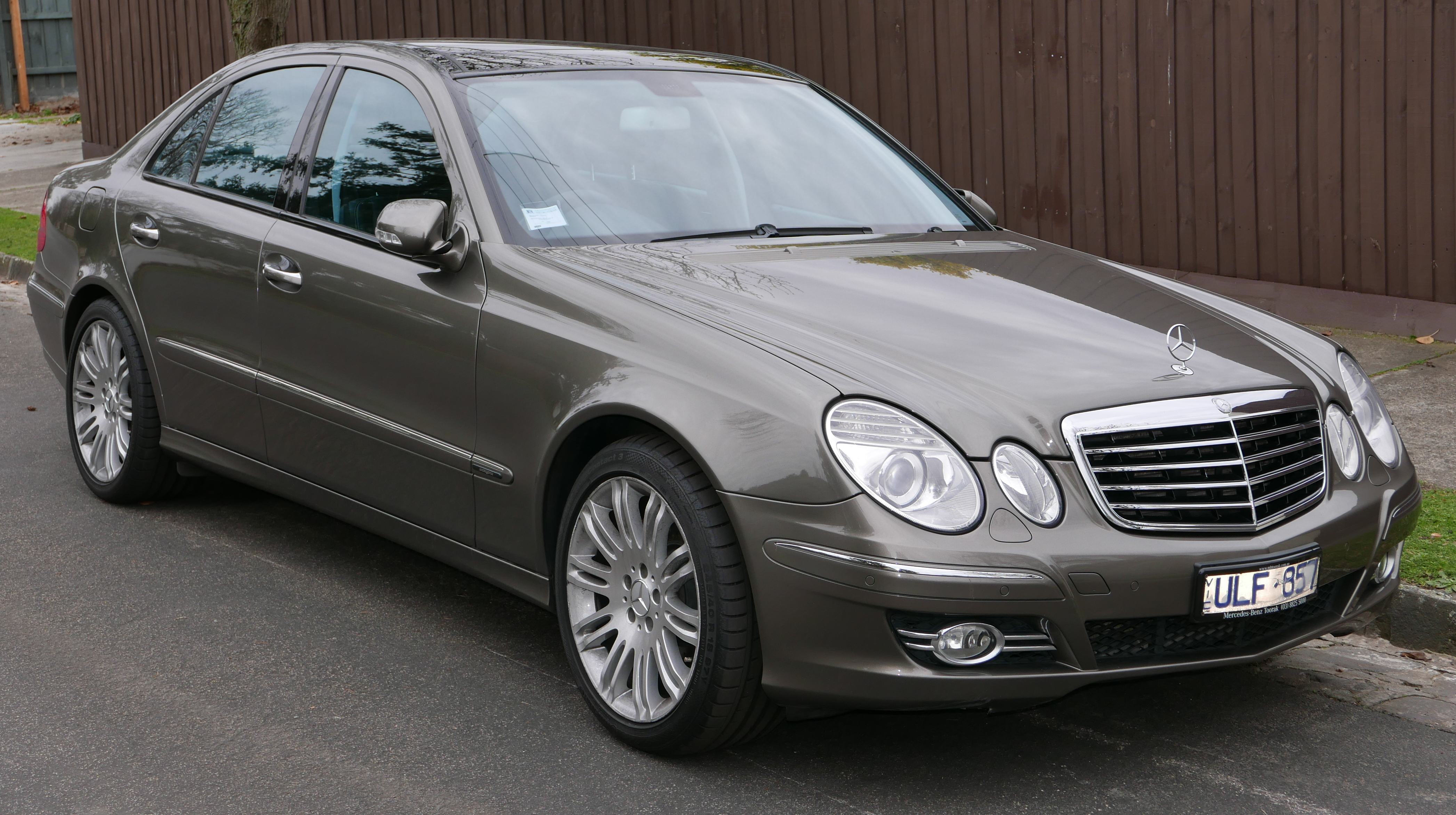 2006 Mercedes-Benz E 500 (W 211 MY07) Avantgarde sedan. Photographed in Kew, Victoria, Australia. Vehicle registration enquiry resultsJurisdictionVictoriaRegistrationULF857Chassis codeWDB2110722B044908Engine code27396030081455Compliance date2006-10Year of manufacture2006